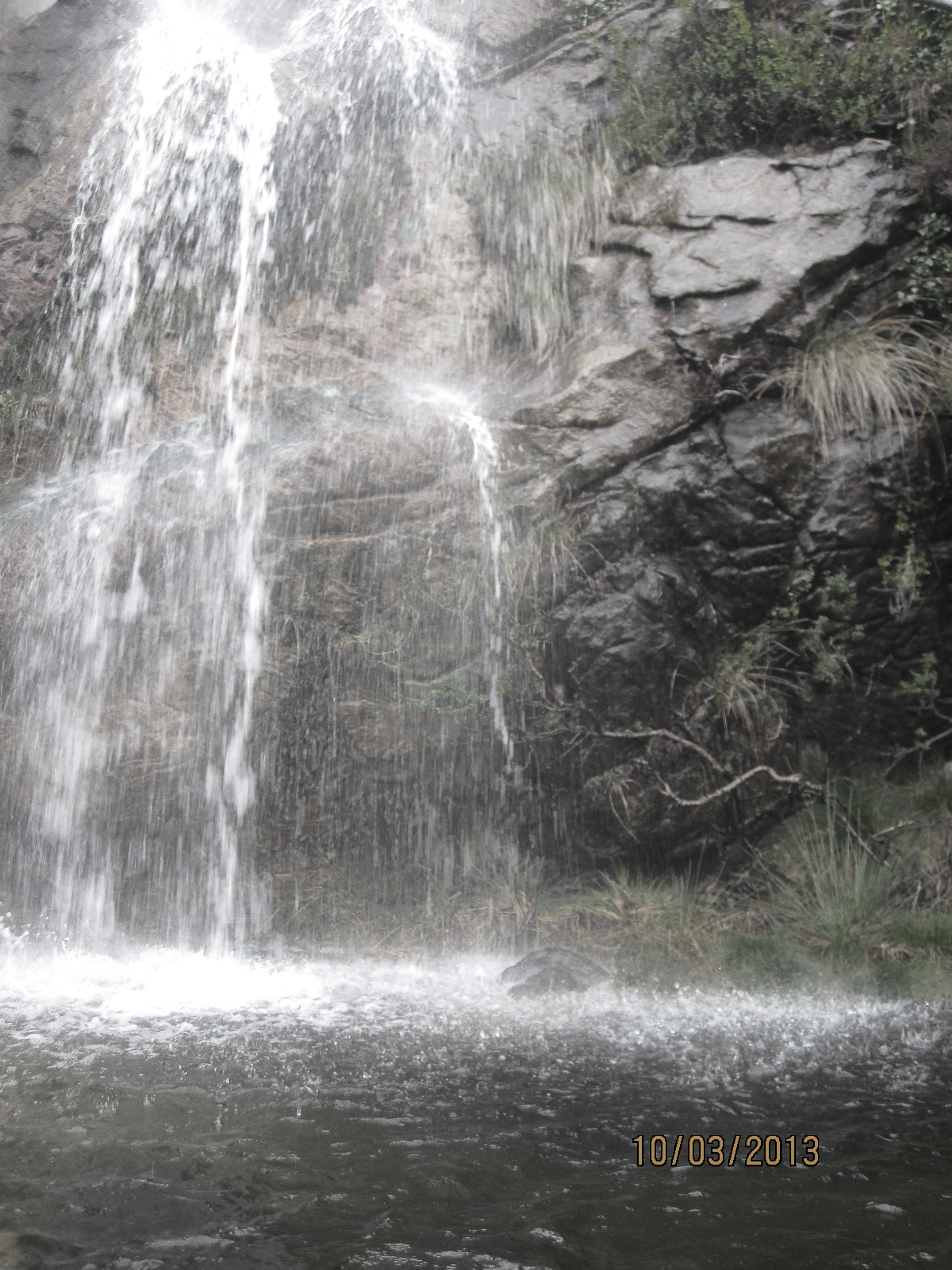 Waterfall in Keramoti, Naxos